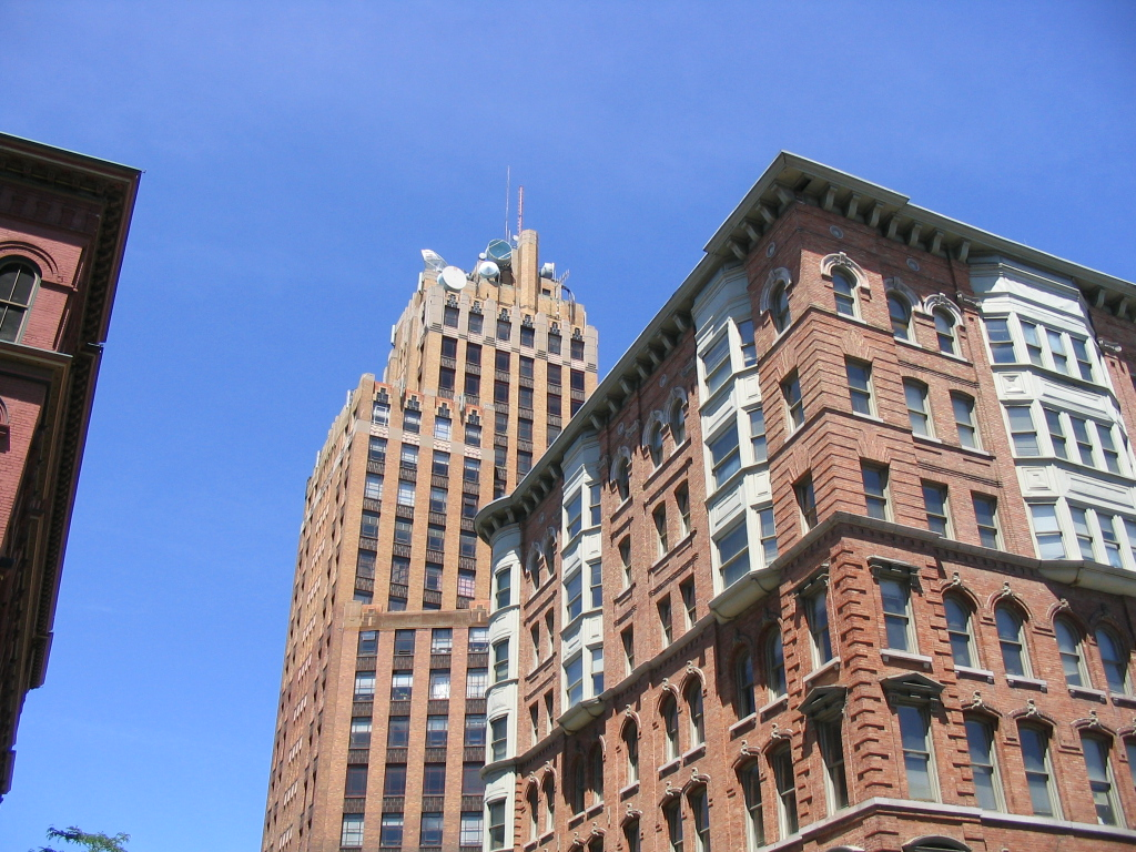 photo of the State Tower Building, the tallest building in Syracuse, NY, taken by me on June 12, 2004